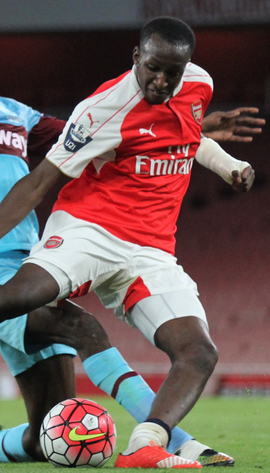 Glenn Kamara scoring against West Ham for Arsenal in the Premier Academy League